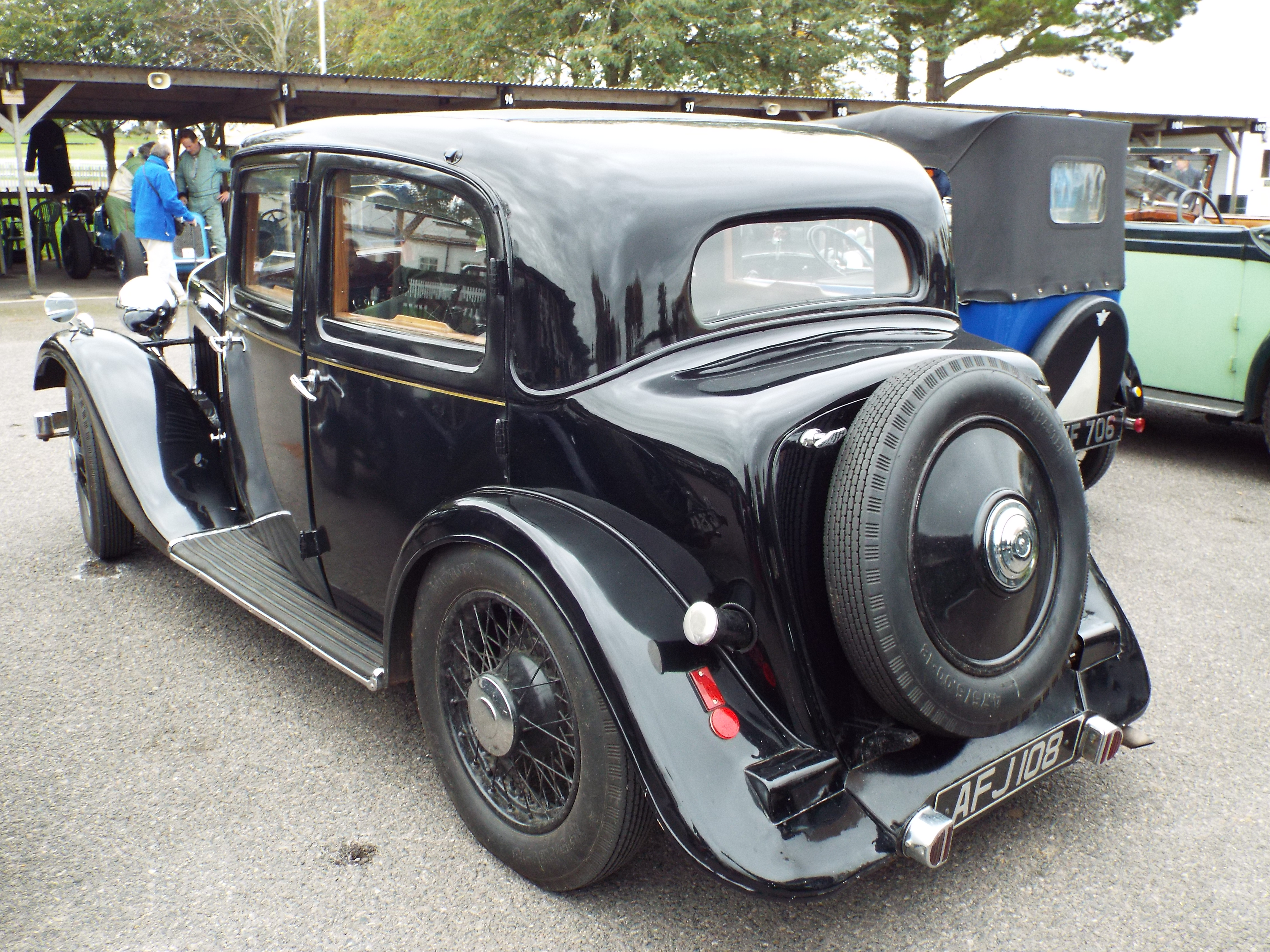 1934 Rover 12 sports saloon (DVLA) first registered 4 October 1934, 1400 cc 25 October 2014 - VSCC Autumn Sprint, Goodwood